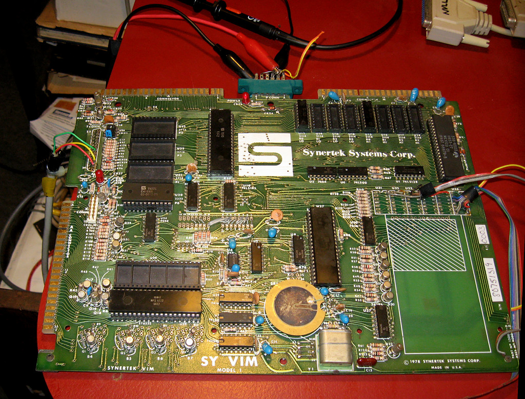 The SYM-1 was a "trainer" 6502-based microprocessor single-board computer released in 1978, and this one was owned by the then-teenage DoctorRock who had been recently motivated to get it working again after 26 years...